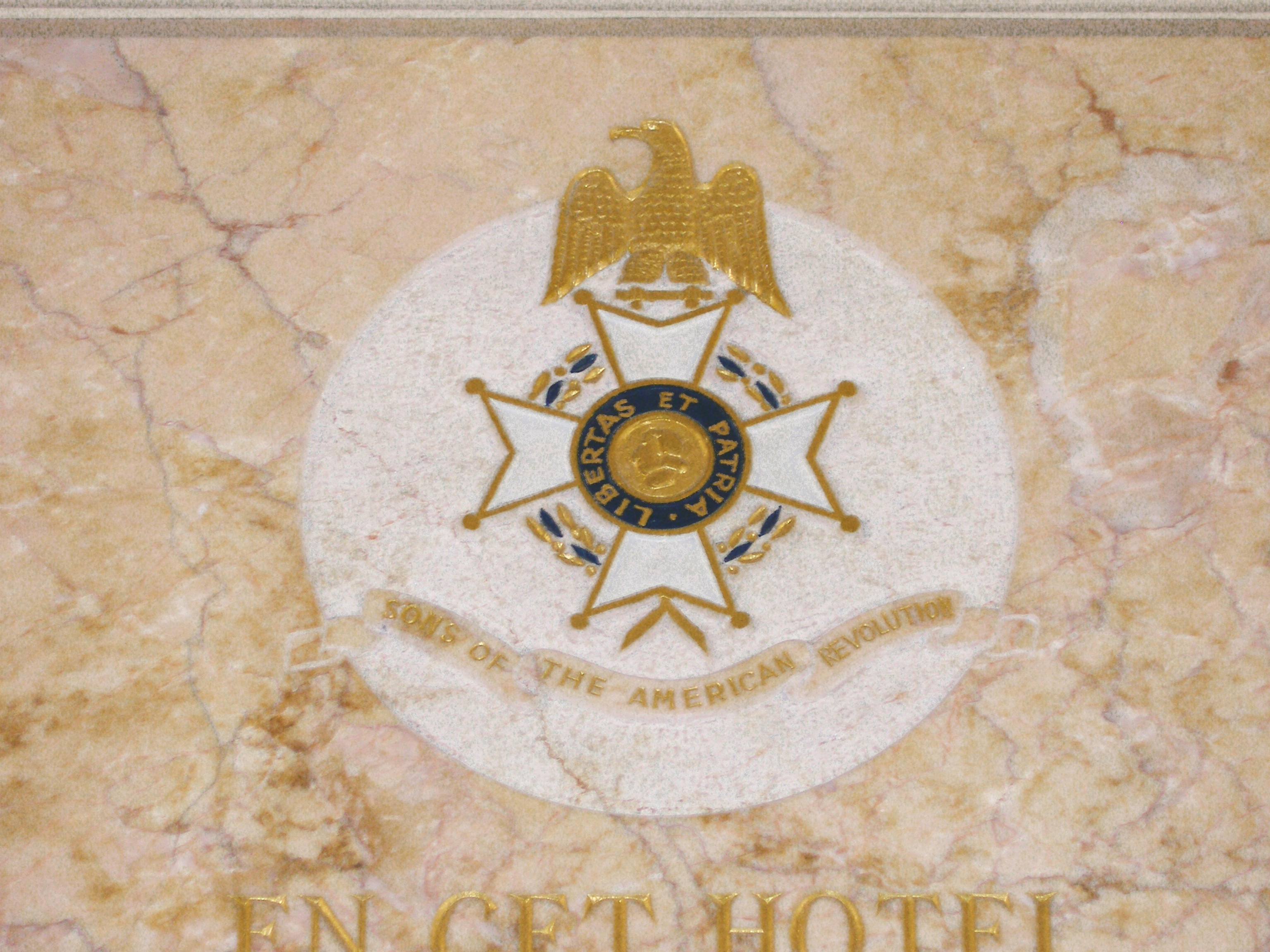 Logo of the Sons of the American Revolution Society. Commemorative plaque on public library on 4, American independance street, Versailles, France. This location was the location of the French Foreign Office during the American Independance War